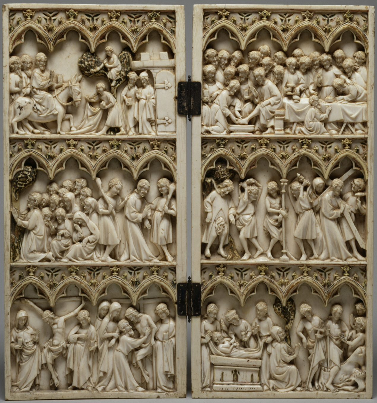 By the middle of the 14th century, the ivory workshops of Paris were creating large-scale diptychs (two hinged panels) with numerous scenes from the Passion cycle. Thirteen are found here reading from top to bottom and left to right, Christ's Entry into Jerusalem, the Washing of the Feet, the Last Supper, the Garden of Gethsemane, the Arrest of Christ, the Hanging of Judas, the Flagellation of Christ, Christ bearing the Cross to Calvary, the Crucifixion, the Deposition, Entombment, Christ appearing to Mary (Noli me tangere) and Christ's Descent into Limbo. Notably Parisian in style are the slender figures with their swayed, elegant poses and smooth drapery folds. Diptychs were used as aids in prayer by the wealthy owners who commissioned them.